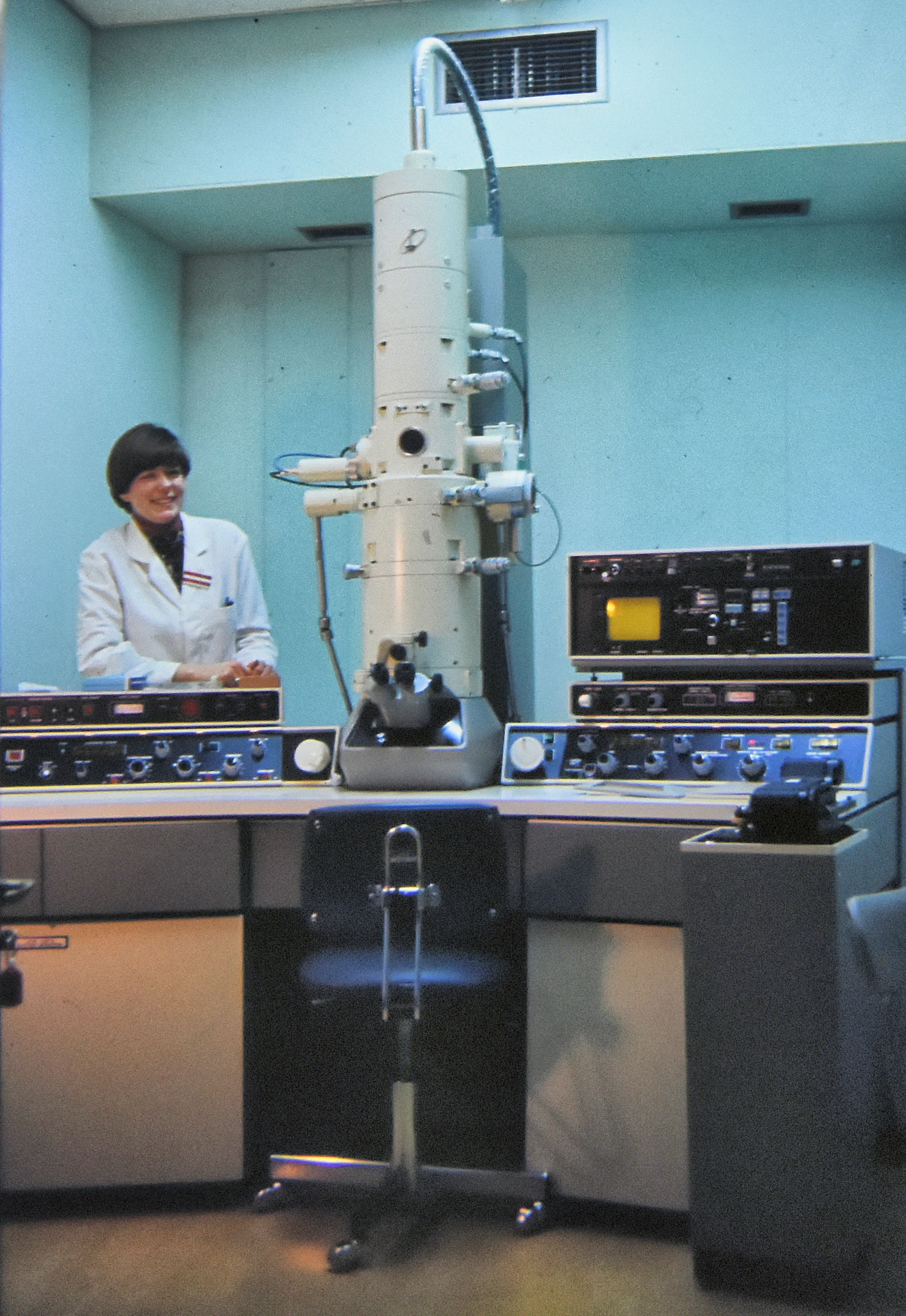 JEOL transmission and scanning electron microscope made in the mid-1970s. Copied from a 35mm transparency.